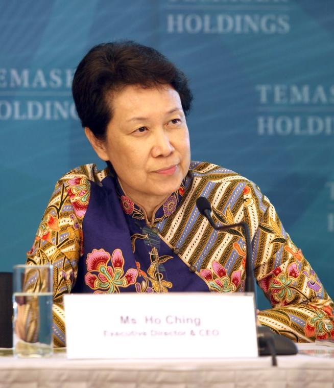 Ho Ching speaking to reporters at the Temasek Review annual report press conference in 2009 in Singapore. Crop of original.